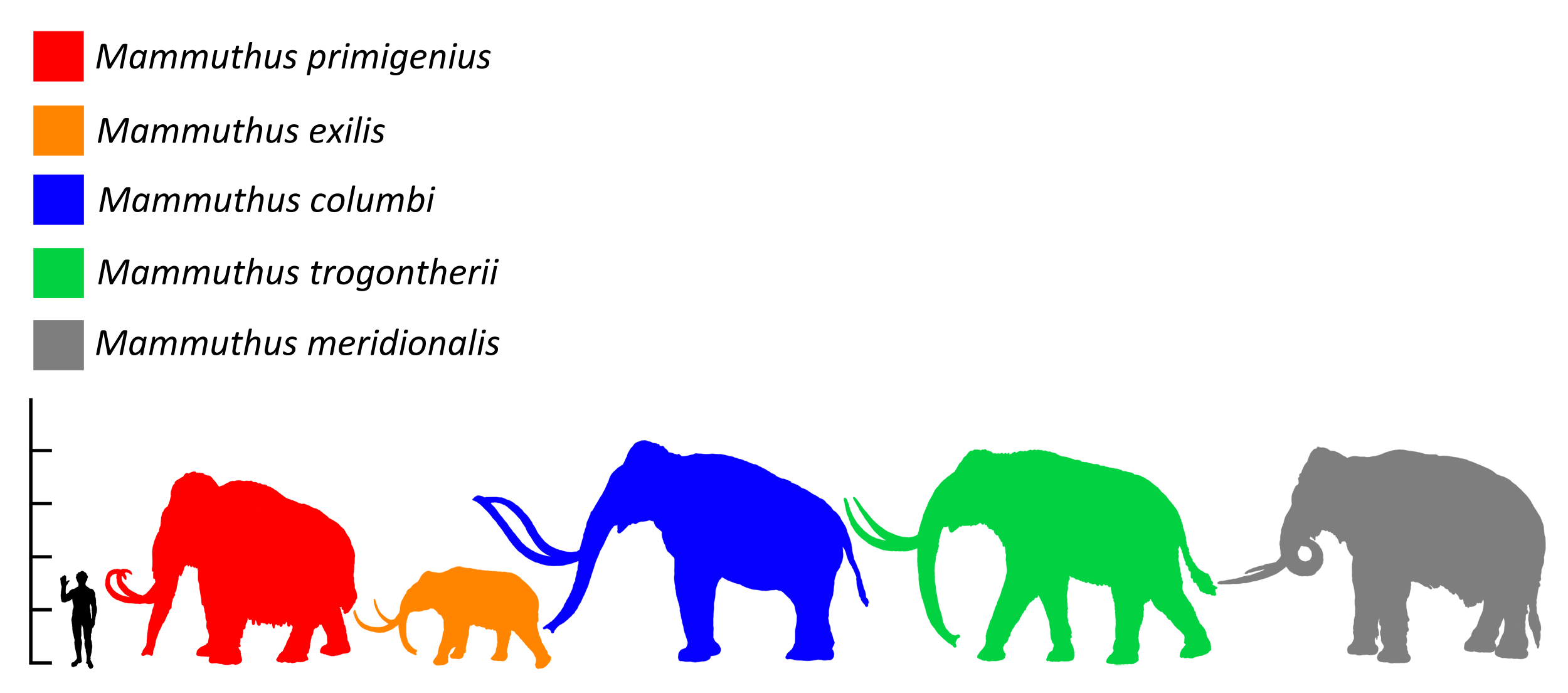 Size comparison of mammoth species. M. primigenius (3.4 m), M. exilis (1.8 m), M. columbi, M. trogontherii, and M. meridionalis (4 m).